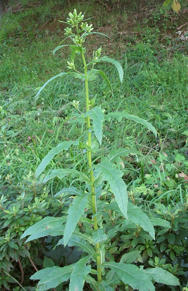 Photograph of Erechtites hieraciifolius, taken in Machida city, Tokyo, Japan.